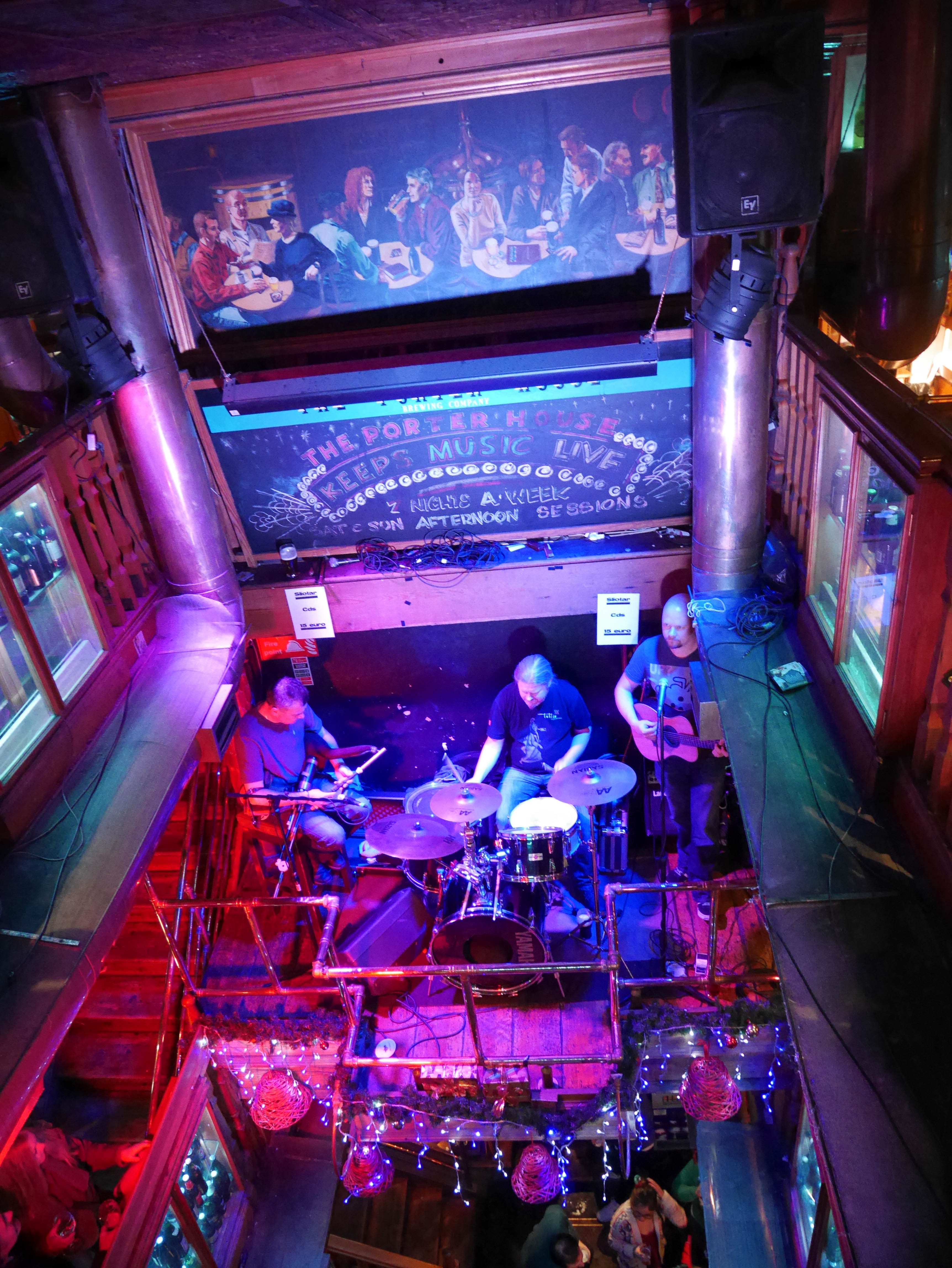 Dublin and Howth